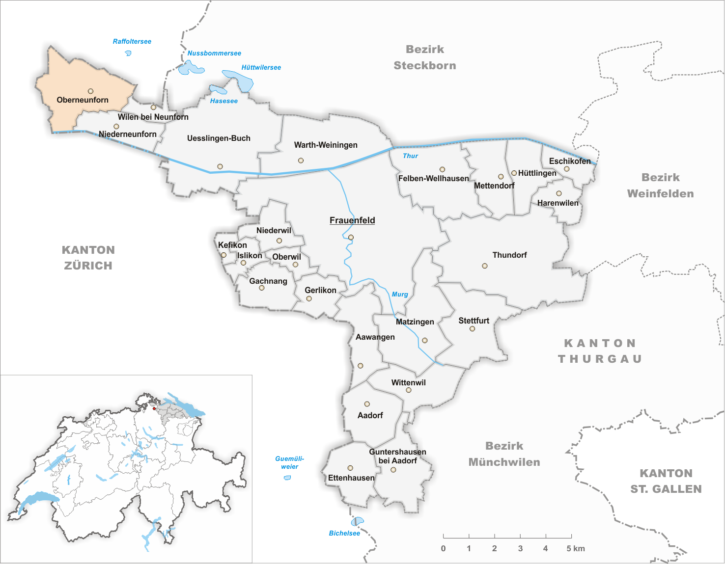 Municipality Oberneunforn